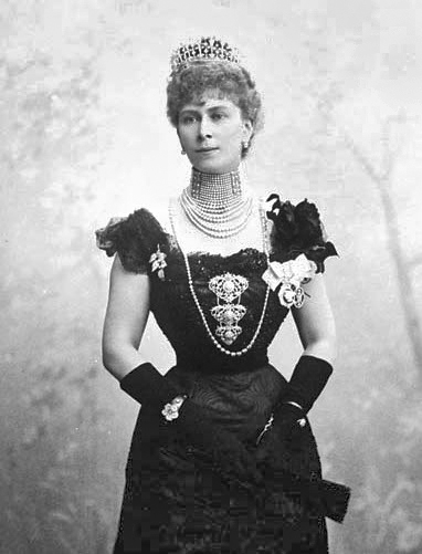 Princess Victoria Mary, the Duchess of Cornwall and York (later Queen Mary). Published by Topley Studio, Ottawa, 1901, for the royal tour, but taken by W. & D. Downey, London. REFERENCE NUMBERS: ACCESSION: 1936-270 REPRODUCTION: PA-028216 (copy negative number)